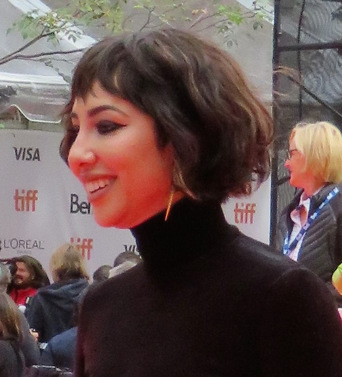 Jackie Cruz at the premiere of This Changes Everything, 2018 Toronto Film Festival